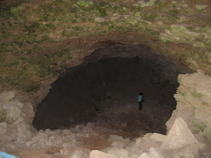 The Cold cave of Ichalki Forest